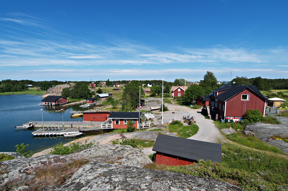 Nötö village, Archipelago National Park